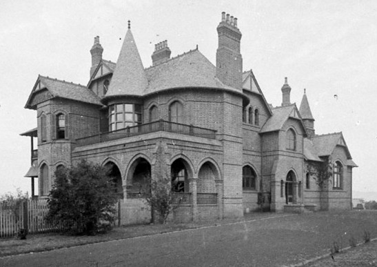 Camelot, Kirkham, between Campbelltown and Camden, NSW, Australia